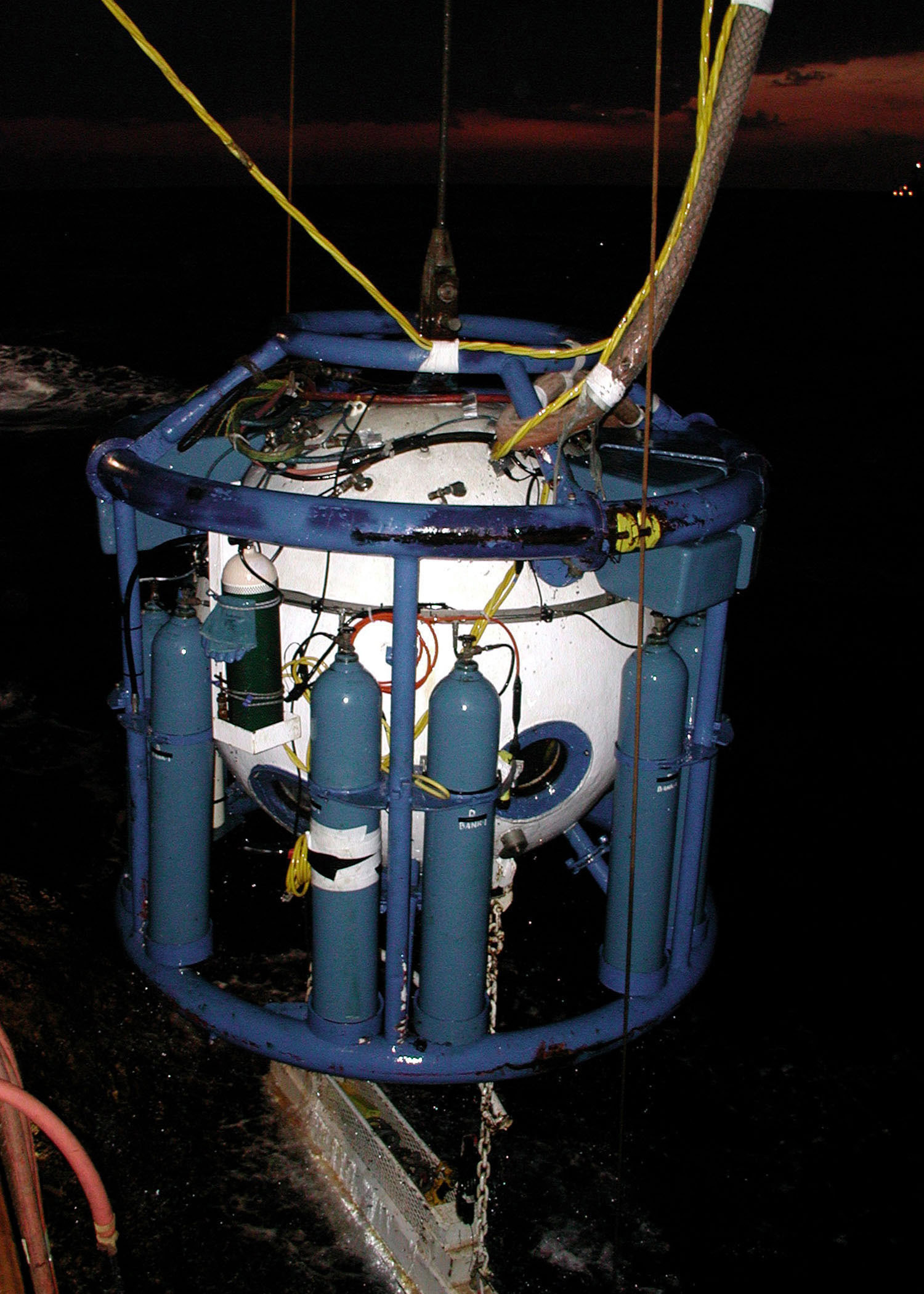 010707-N-3093M-003 Atlantic Ocean (July 7, 2001) -- The Personnel Transfer Capsule (PTC) is raised to the surface of the Atlantic after an eight-hour dive on the historic wreck site of the USS Monitor off the coast of Cape Hatteras, N.C. The PTC is part of a civilian saturation dive system leased by the U.S. Navy and transported to the site aboard the Derrick Barge “Wotan”. The Barge is serving as the main support vessel for Phase II of the Monitor 2001 Expedition, the sixth expedition by the Navy and the National Oceanographic and Atmospheric Administration (NOAA) to preserve the historic vessel. The saturation system maintains the divers inside under pressure for days at a time so they may work without decompressing between dives. The PTC is their taxi between the topside saturation living quarters and the work site some 240 feet below the surface. U.S. Navy Photo by Chief Photographer’s Mate Andrew Mckaskle. (RELEASED)